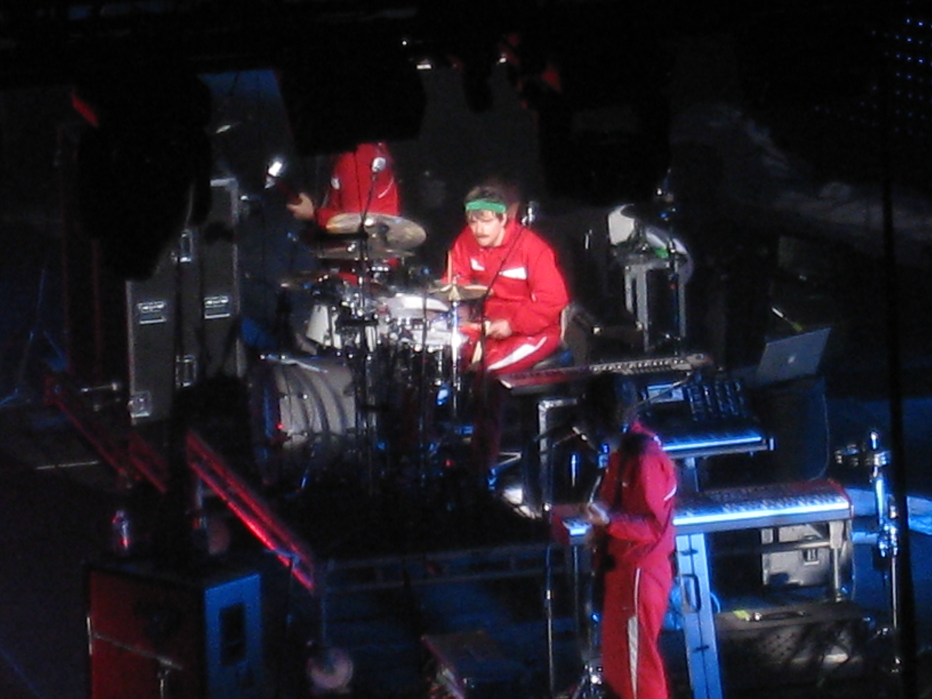 Weezer at the Madison Square Garden